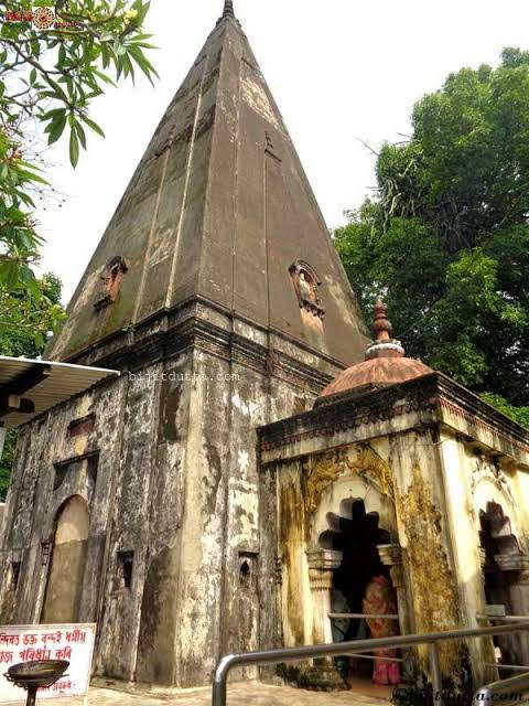 Basudev Than built by Chutia kings